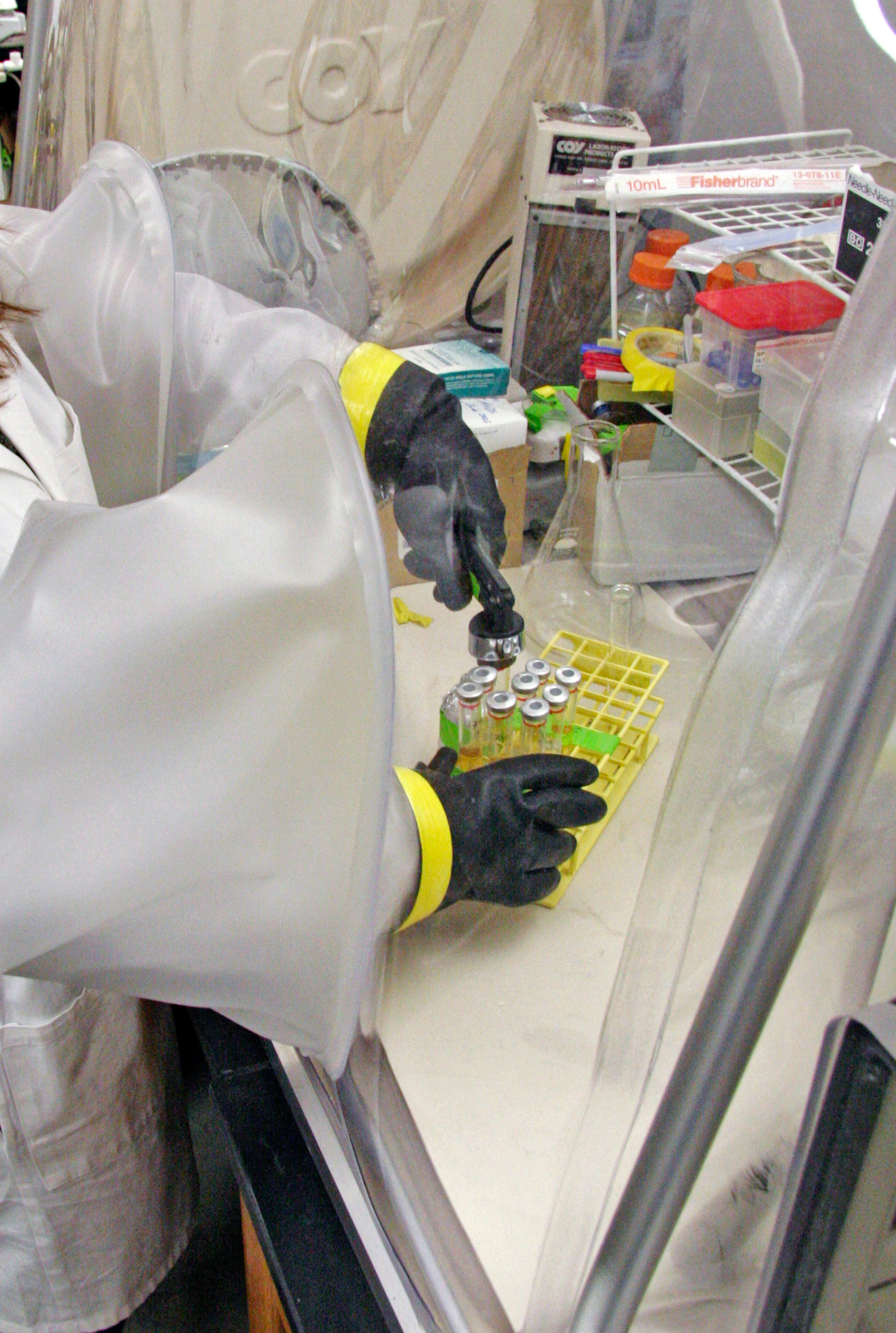 Anerobic Experiment Station Center for Biofilm Research